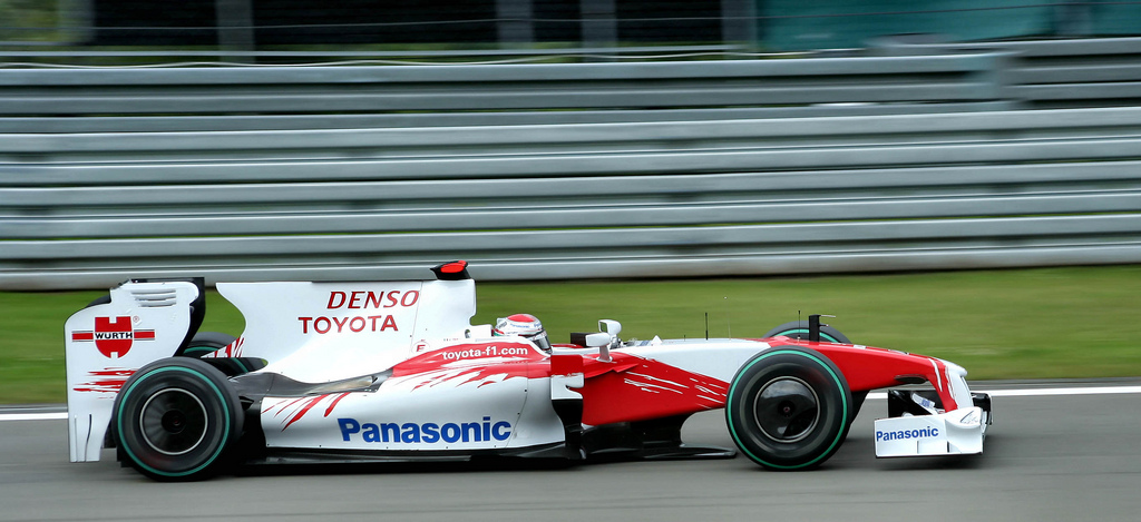 Jarno Trulli driving for Toyota F1 at the 2009 German Grand Prix.